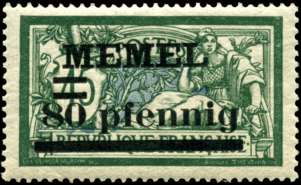 Memel 80pf overprint on 1920 on 45c stamp